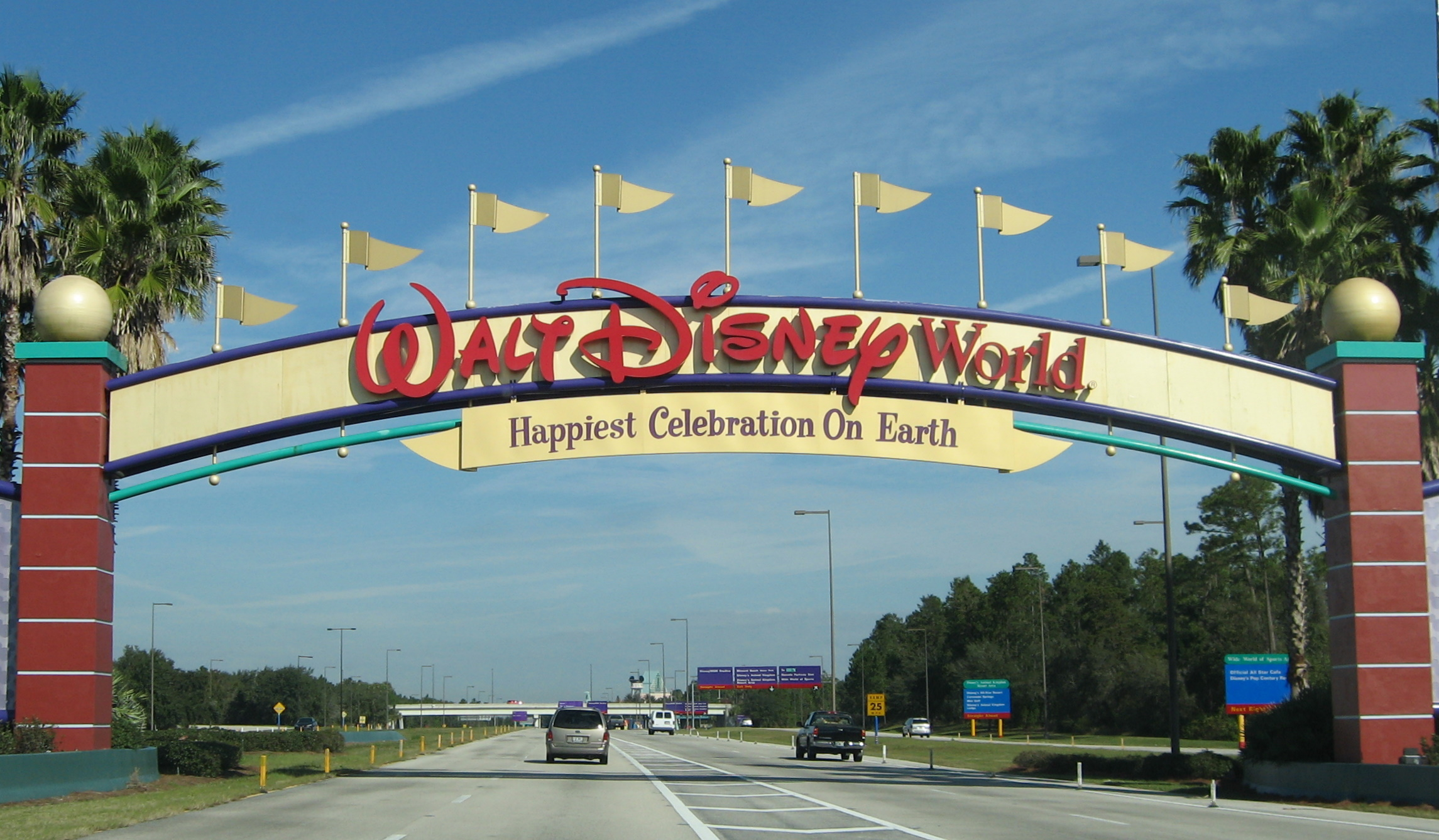 Entrance to Disney World, Lake Buena Vista